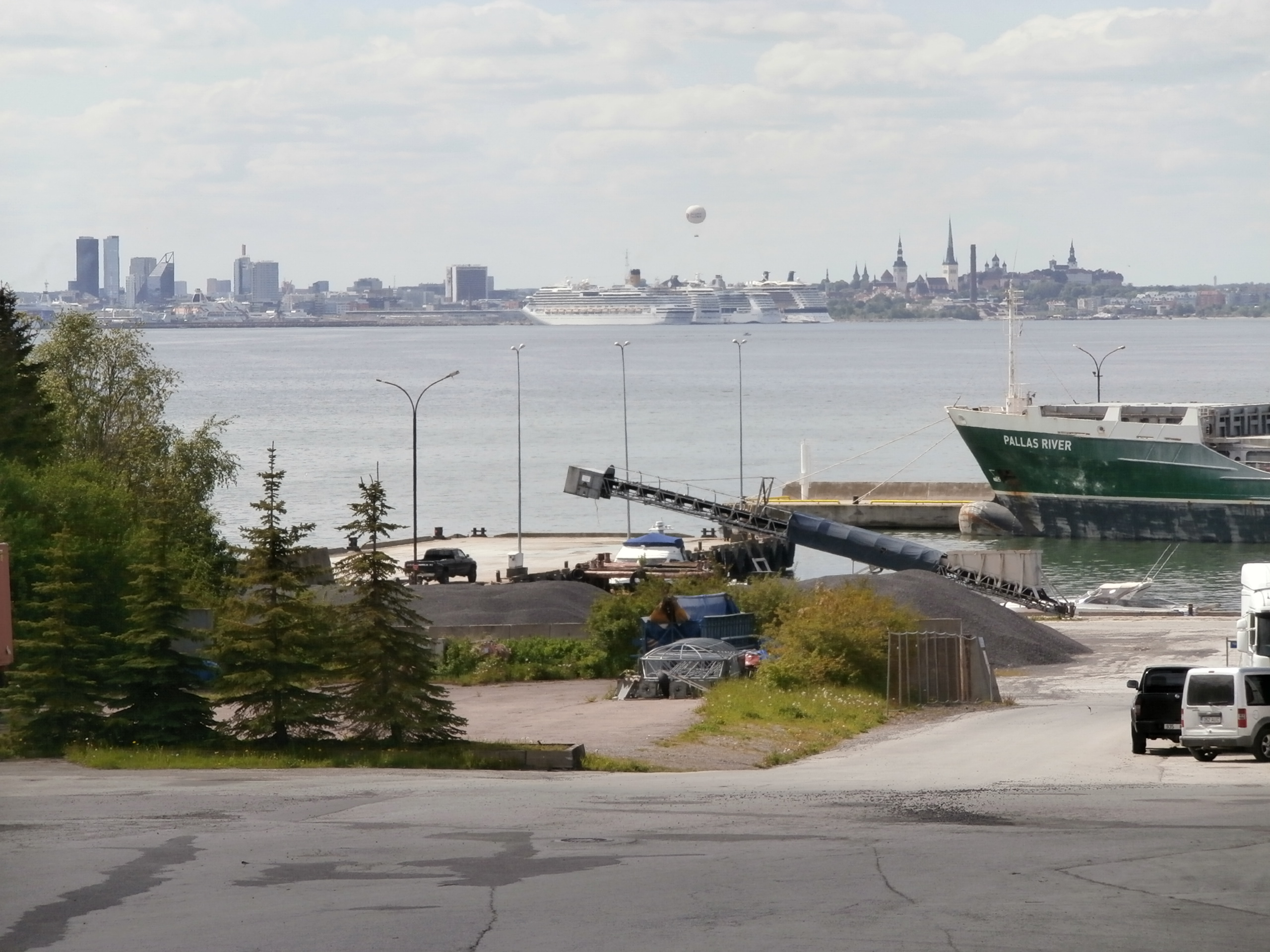 Pallas River bow mast, Port of Miiduranna in Miiduranna (ES-HAL Balloon Tallinn over cruise ships: Costa Favolosa at pier 27, MSC Orchestra at pier 26, Serenade of the Seas at pier 25 and Celebrity Silhouette at pier 24 in the background; ferry Baltic Queen (left) in front of Tallinn City)